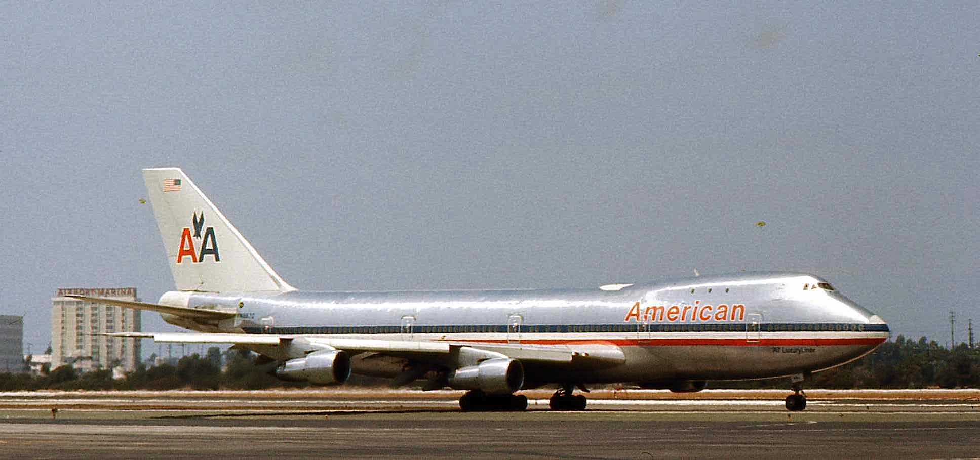 An American Airlines Boeing 747 taken at Los Angeles Airport in 1974.